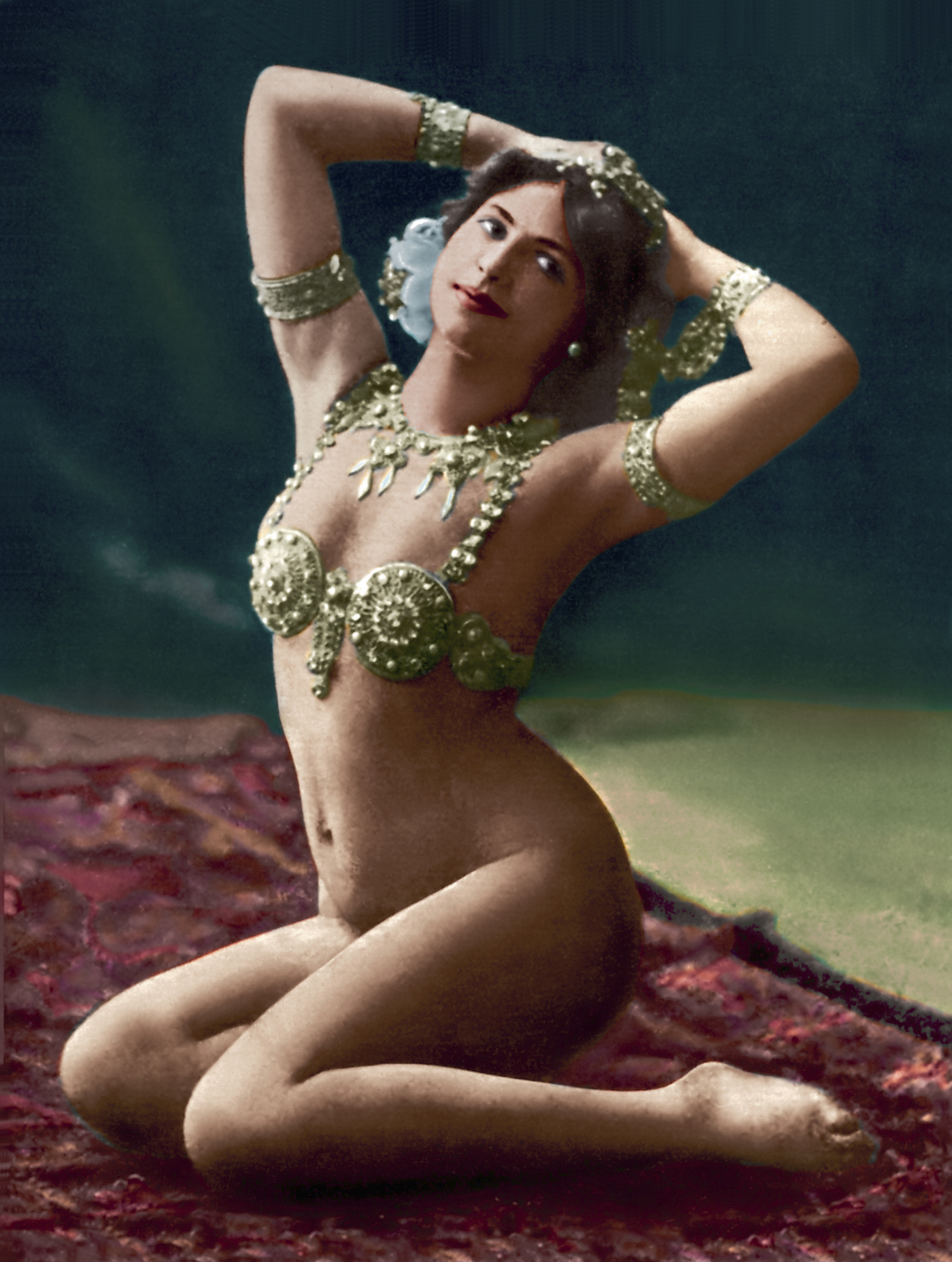 Mata Hari